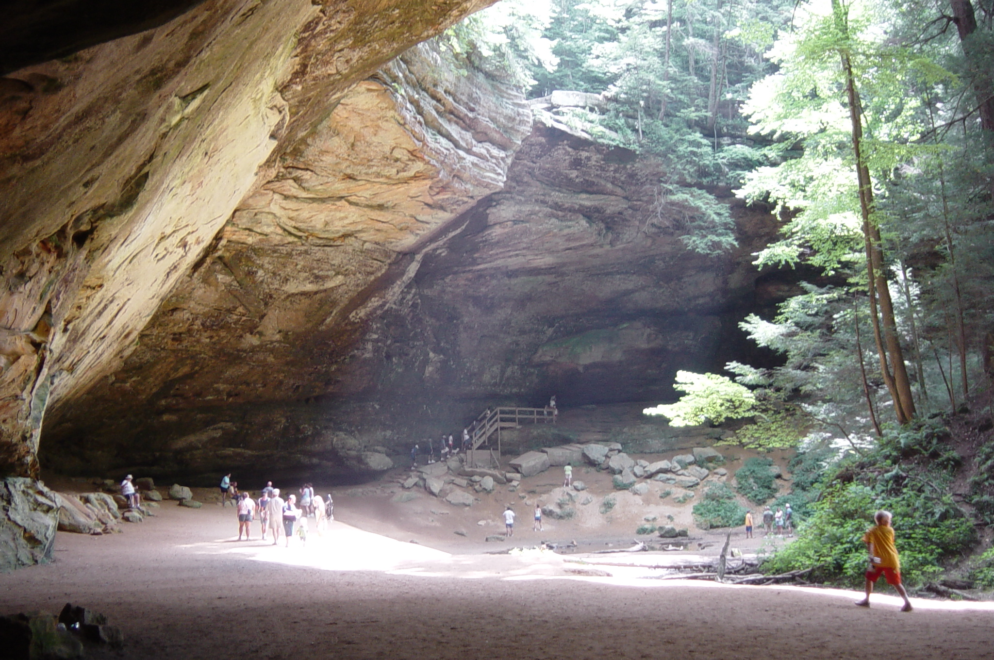 Photograph of the Ash Cave complex in Hocking Hills State Park